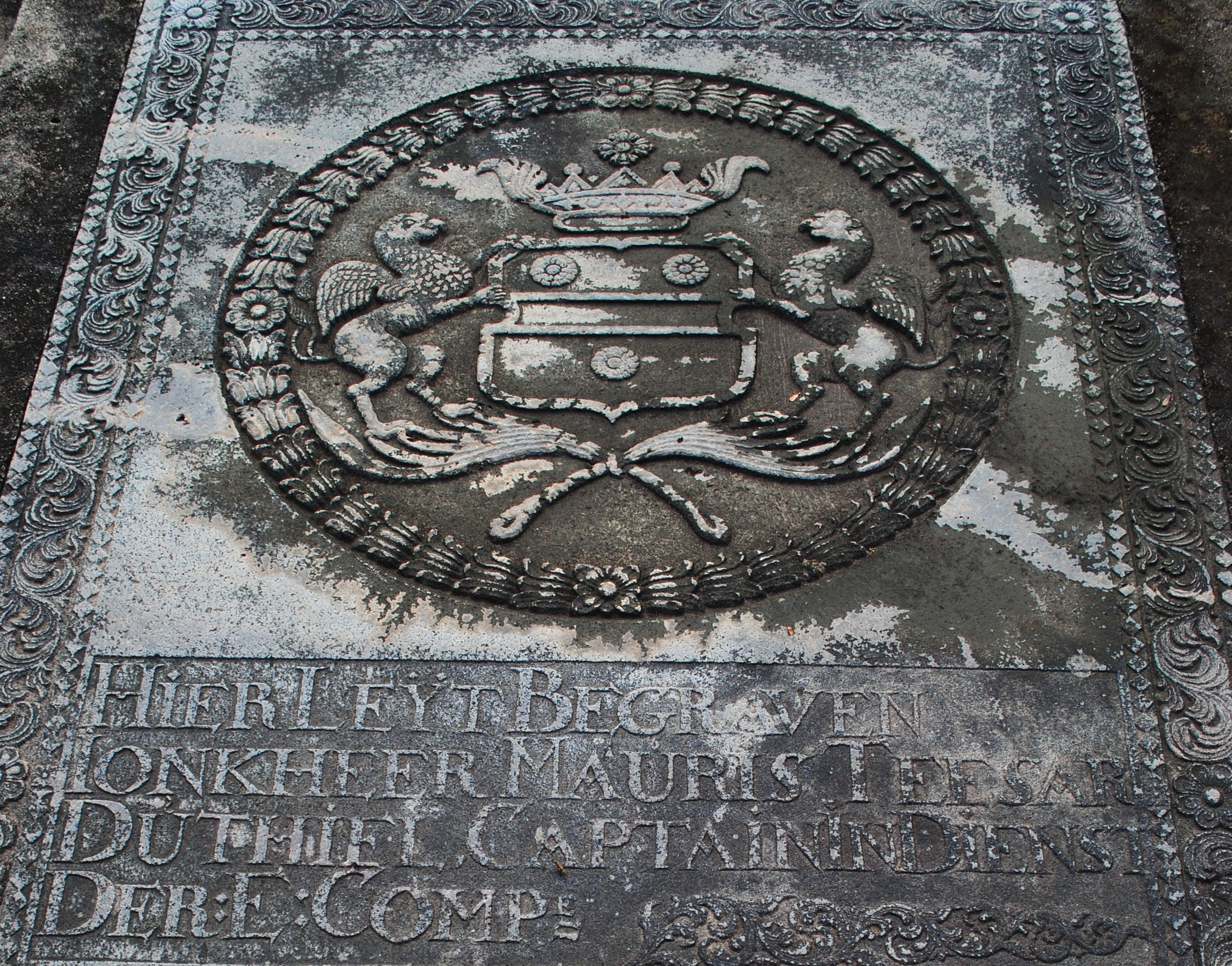 Coat of arms at a grave